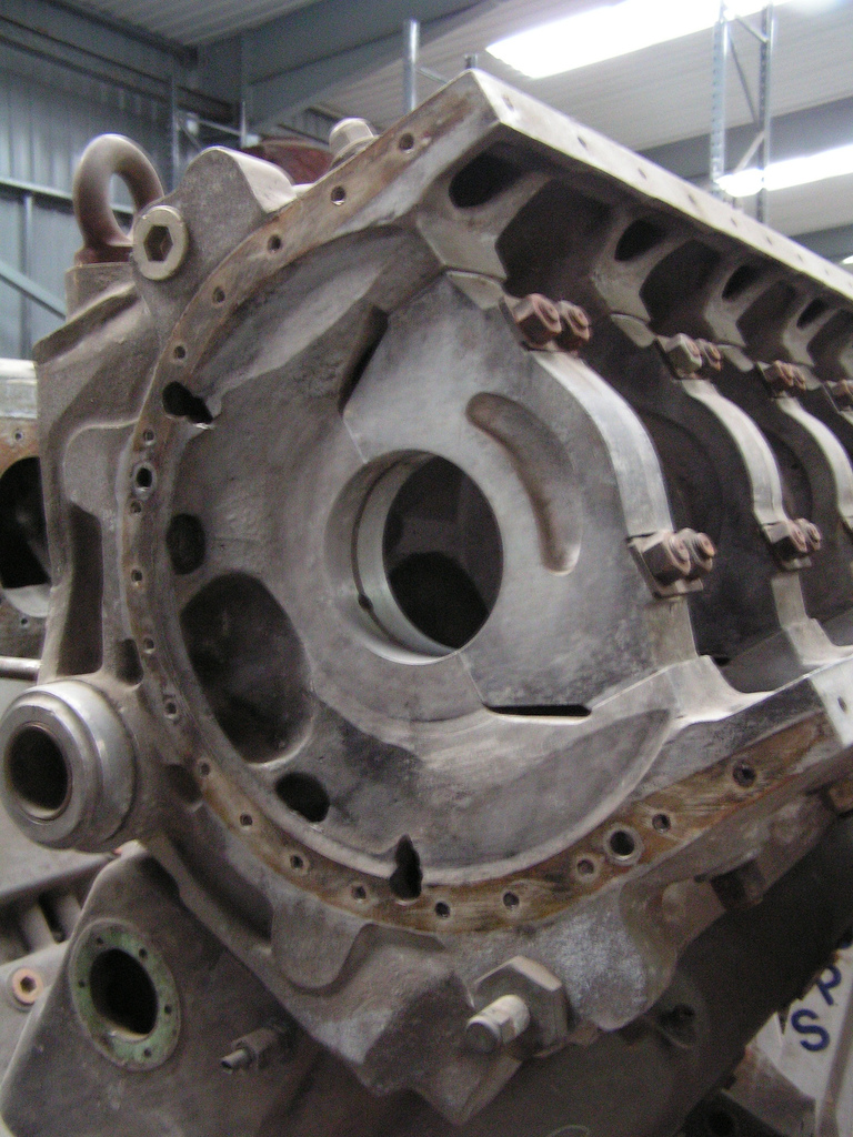 Looking at a stripped down Deltic engine. Barrowhill. November 2007.